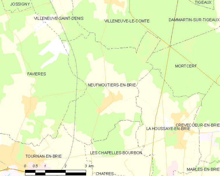 Map of French municipality Neufmoutiers-en-Brie